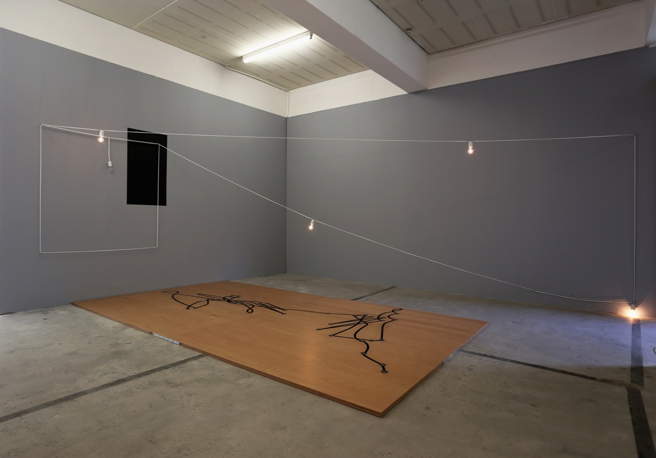 Artwork "In/Voluntary Movement Diagram (Josef K.)" by Vittorio Santoro, 2013, Installation. Photo by Marco Blessano